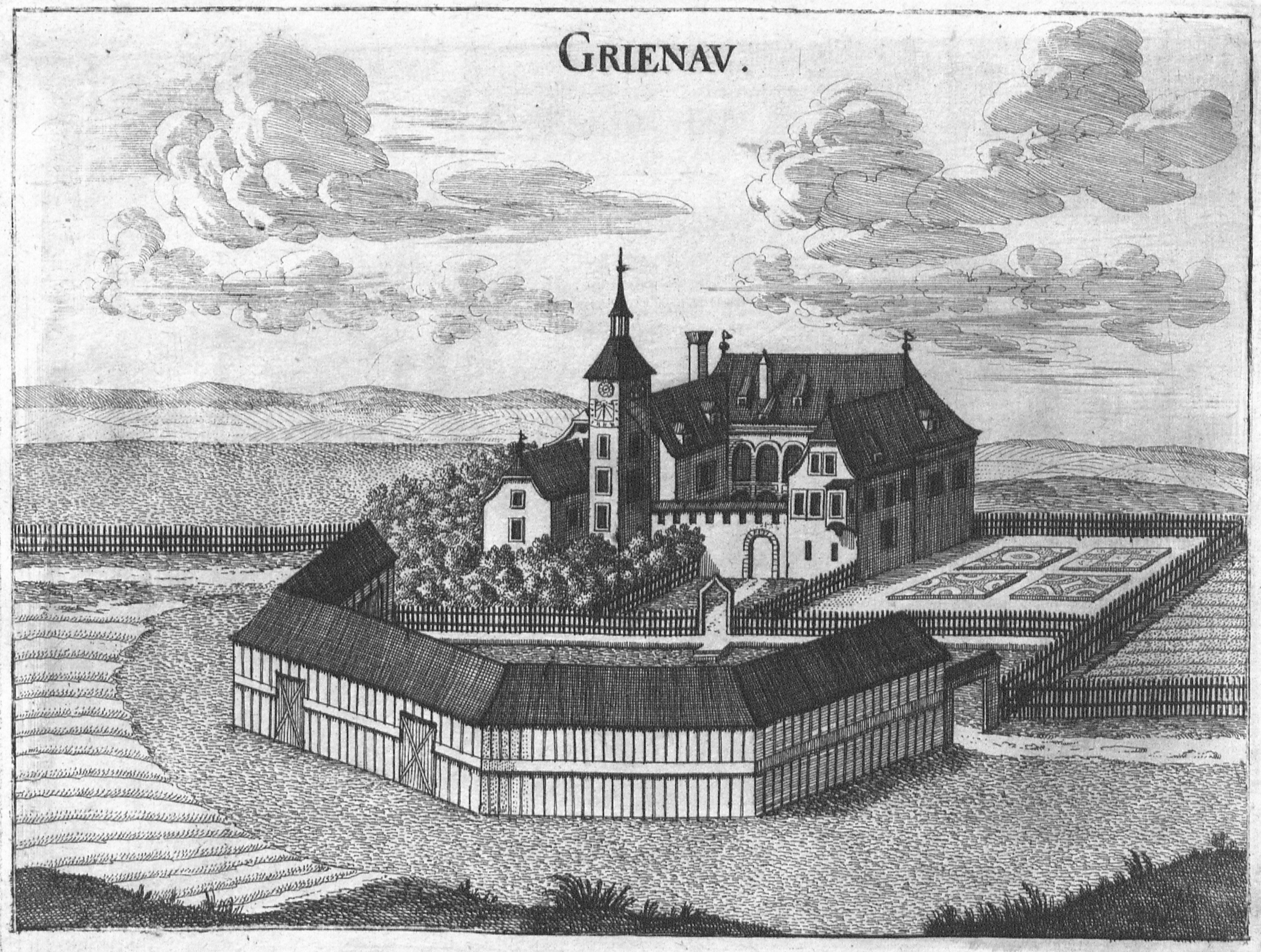 Engraving, view of Grünau castle, Upper Austria